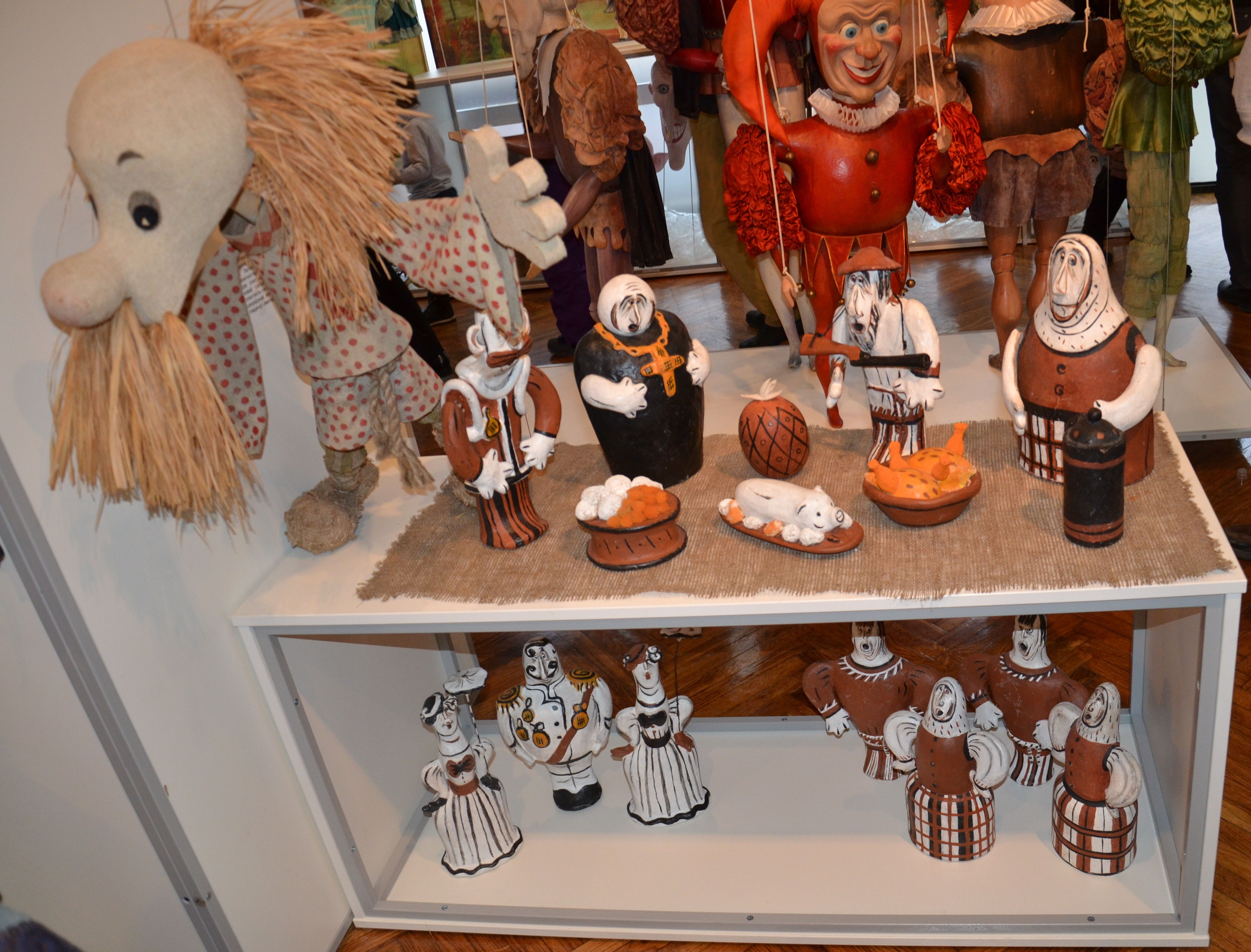 Belarusian Vertep in Museum of Minsk Puppet